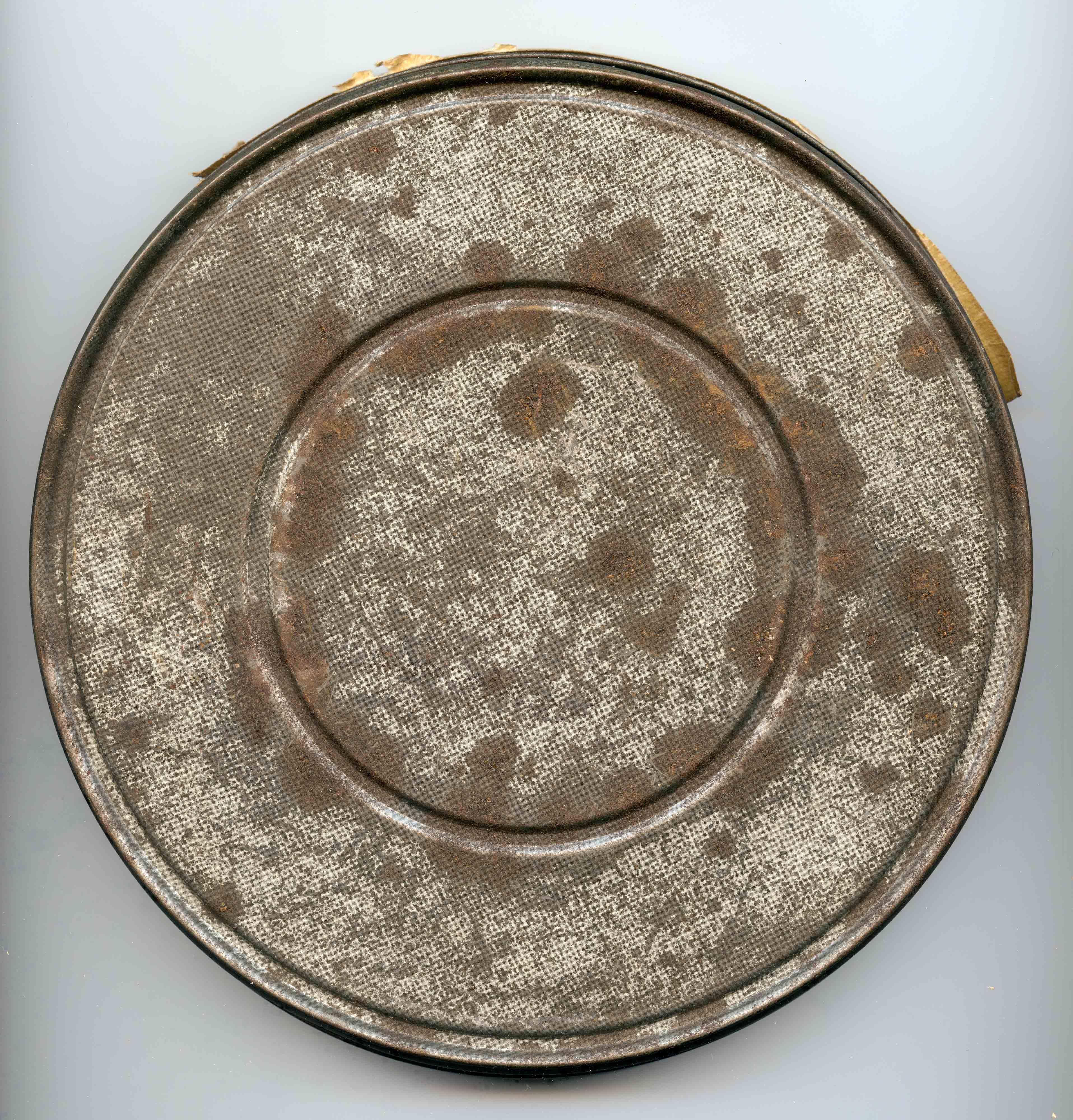 An example of a decaying 16mm stag film can. From 'Small Gauge Reel & Film Can Archive' Daniel D. Teoli Jr. Archival Collection.